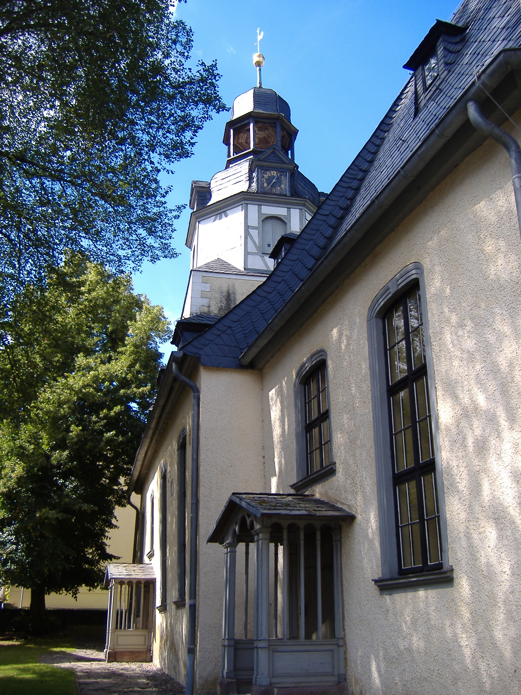 Church of Wippra (Saxony-Anhalt, Germany)